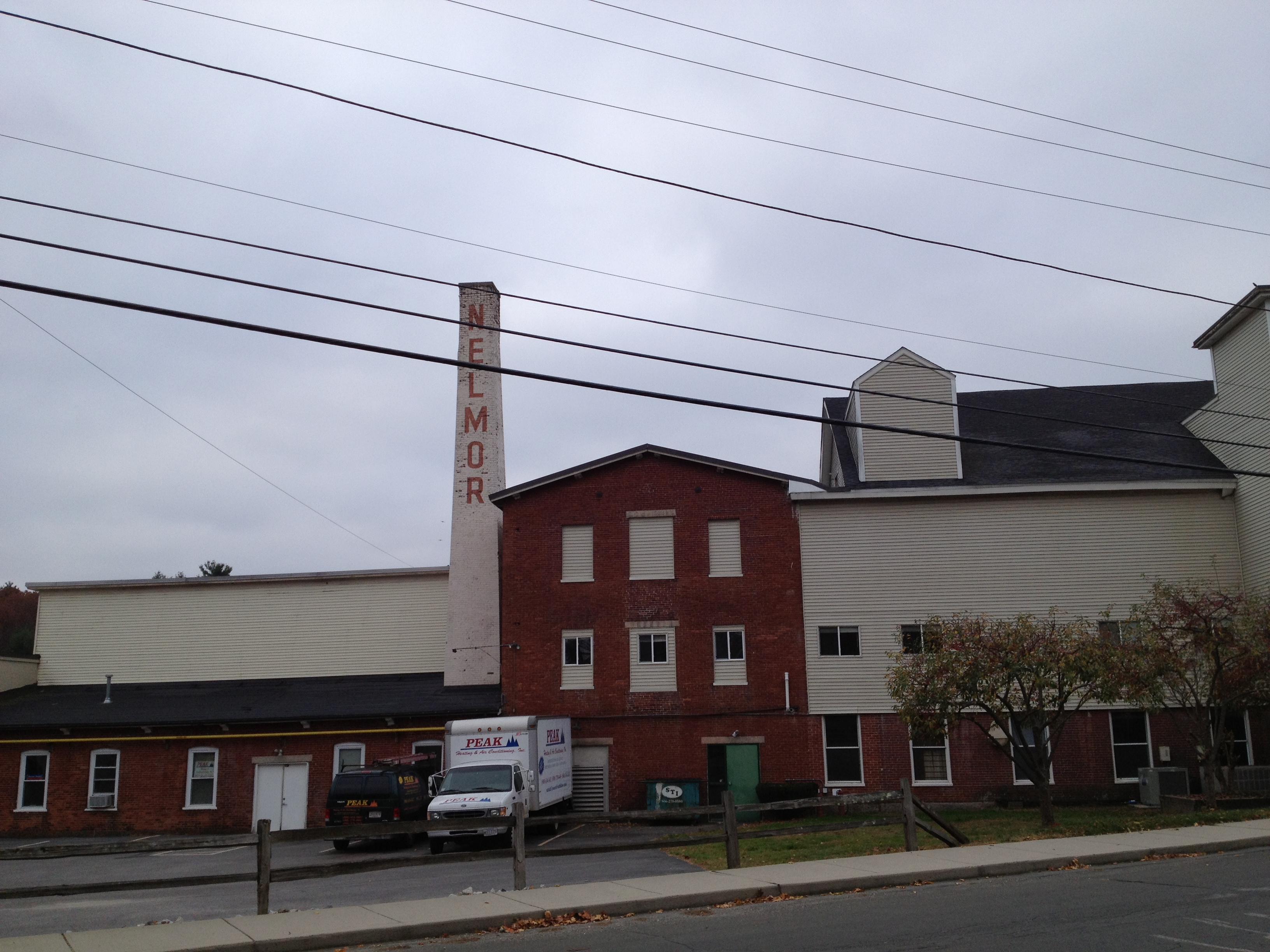 Richard Sayles' Rivulet Mill Complex, N. Uxbridge, MA; Built 1814; Early water powered mills and mill villages at Uxbridge, typify the Rhode Island System used to build mills and villages with ponds to collect water and drive the earliest American textile industry